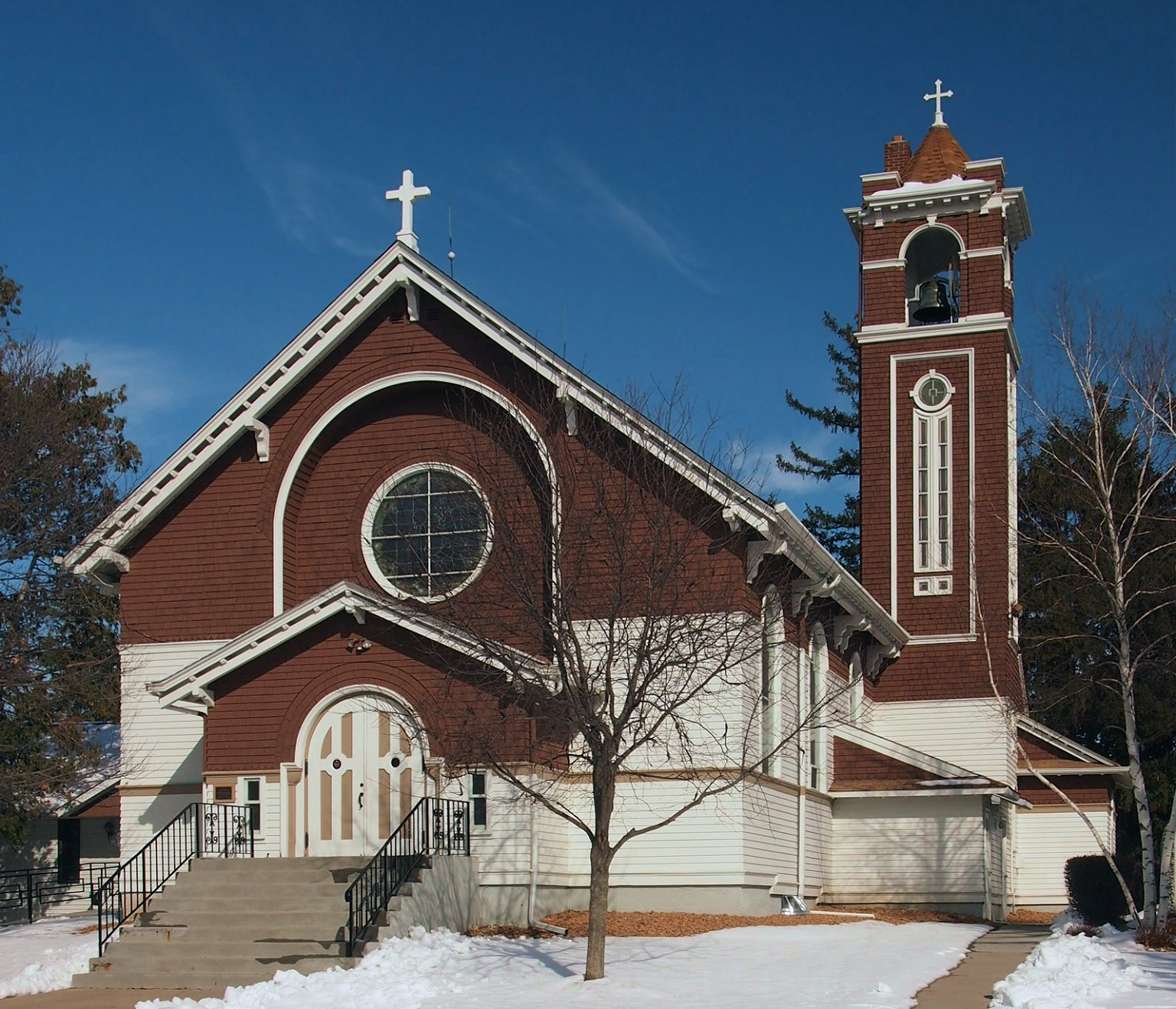 Church of the Annunciation, 4996 Hazelwood Ave, Webster Township, Minnesota, USA. Viewed from the west.